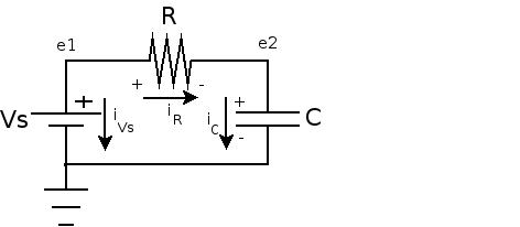 RC Circuit